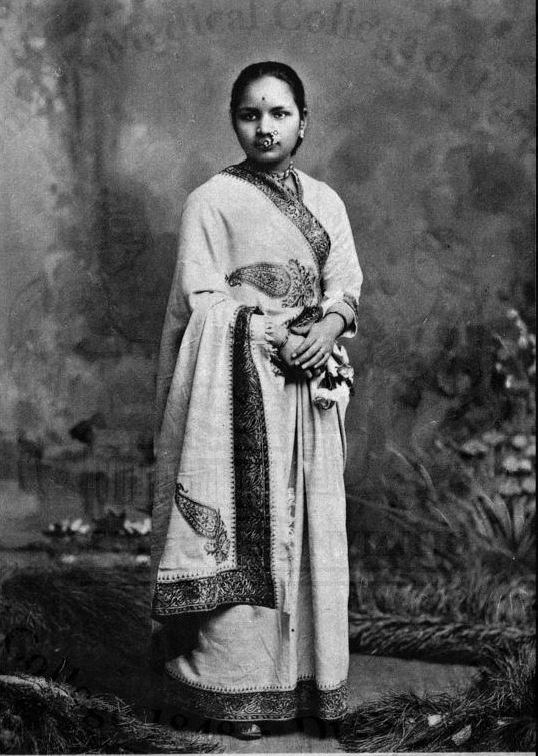 Photograph of Anandi Gopal Joshi (March 31, 1865 - February 26, 1887).